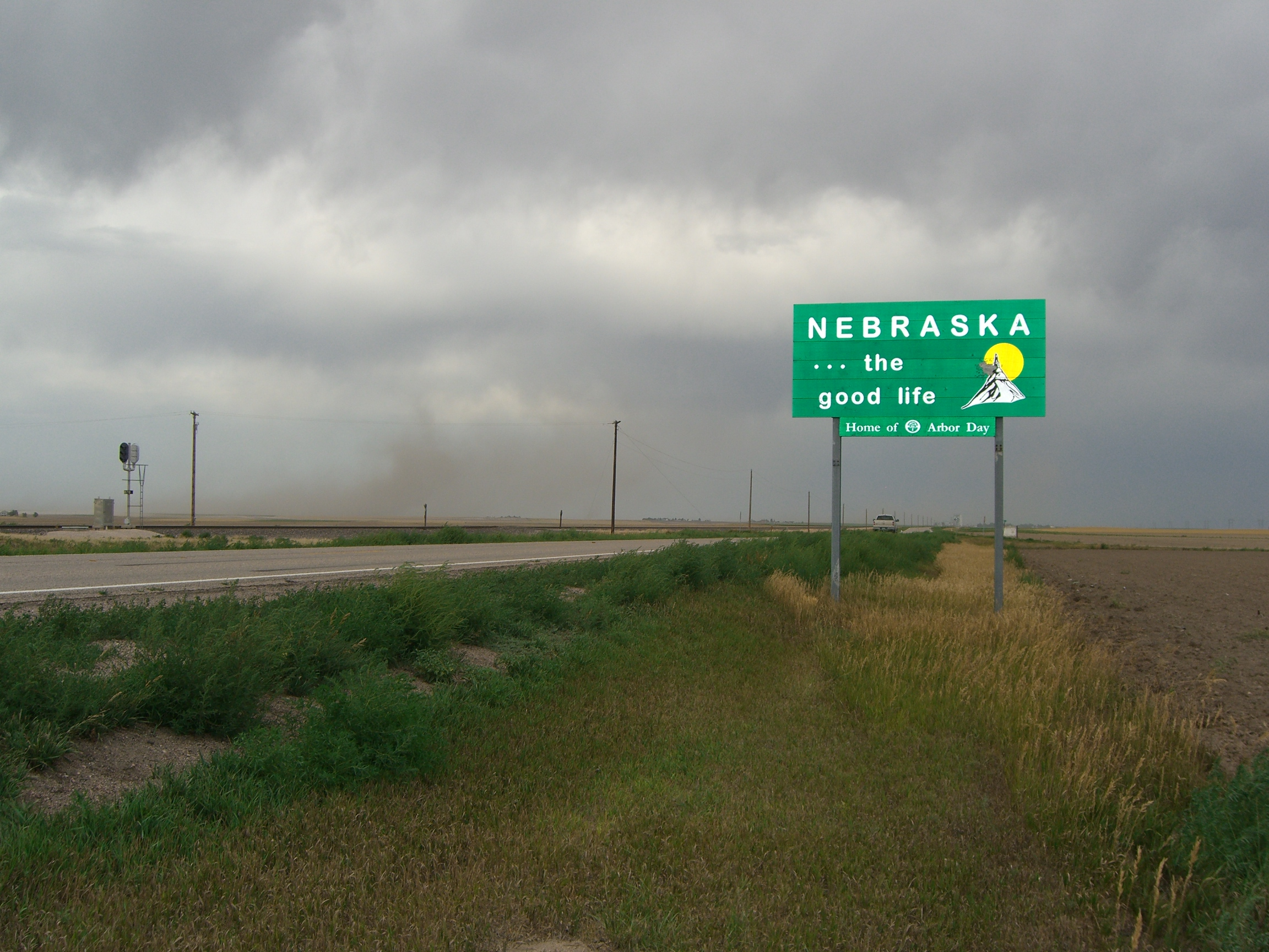 Welcome-to-Nebraska-sign as seen from Colorado